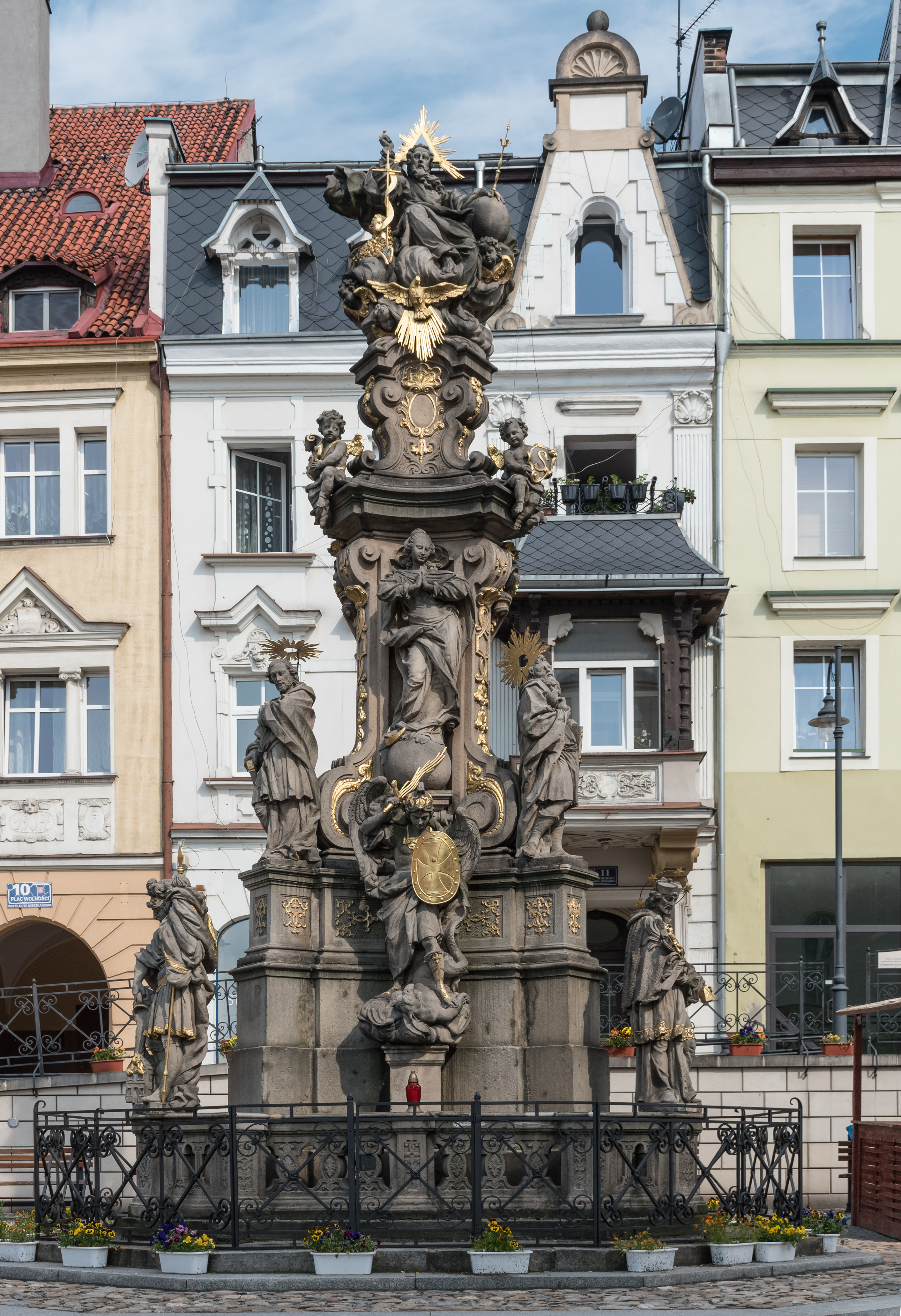 Trinity Column in Bystrzyca Kłodzka